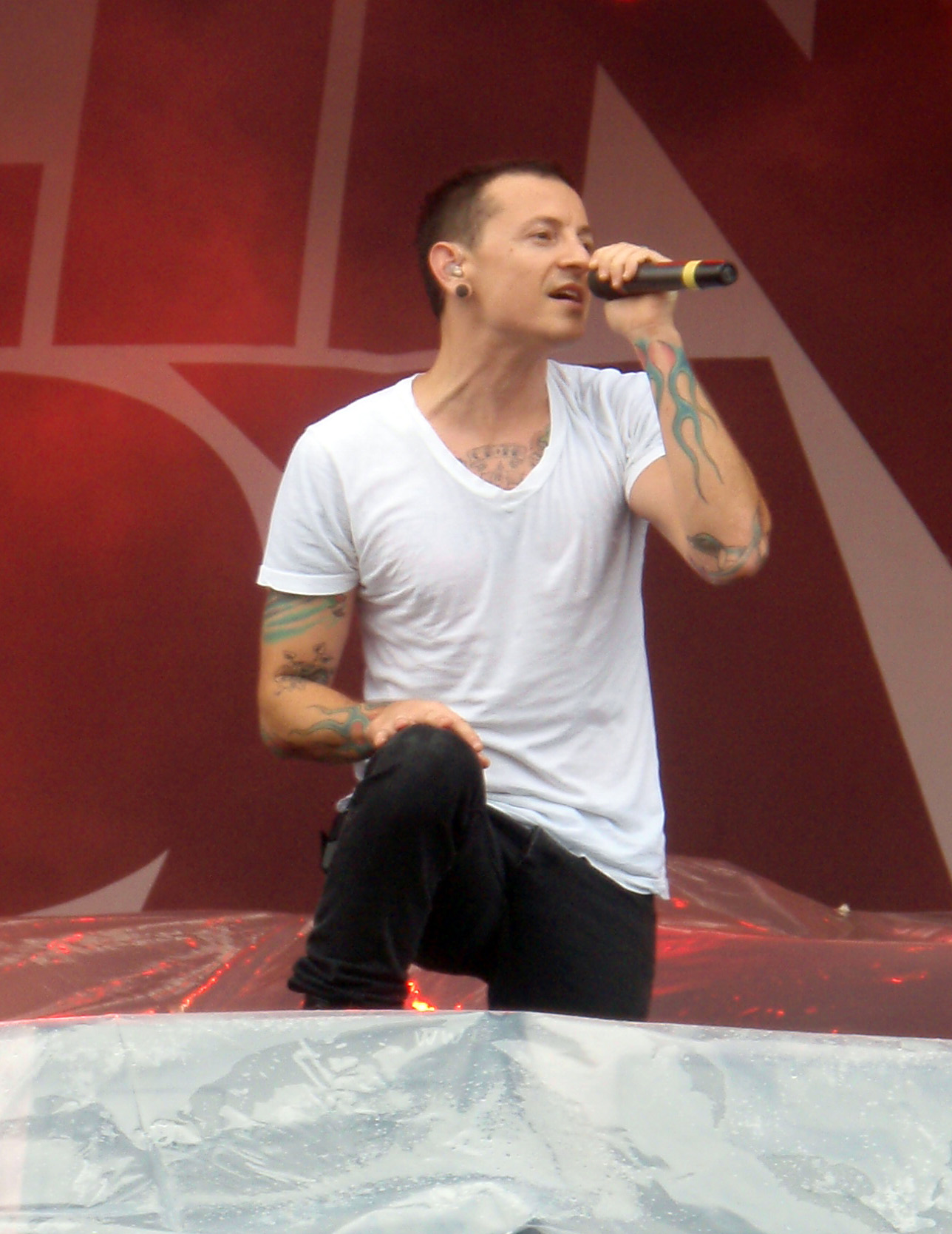 Chester Bennington from Linkin Park performing at Sonisphere Festival in Kirjurinluoto, Pori, Finland.